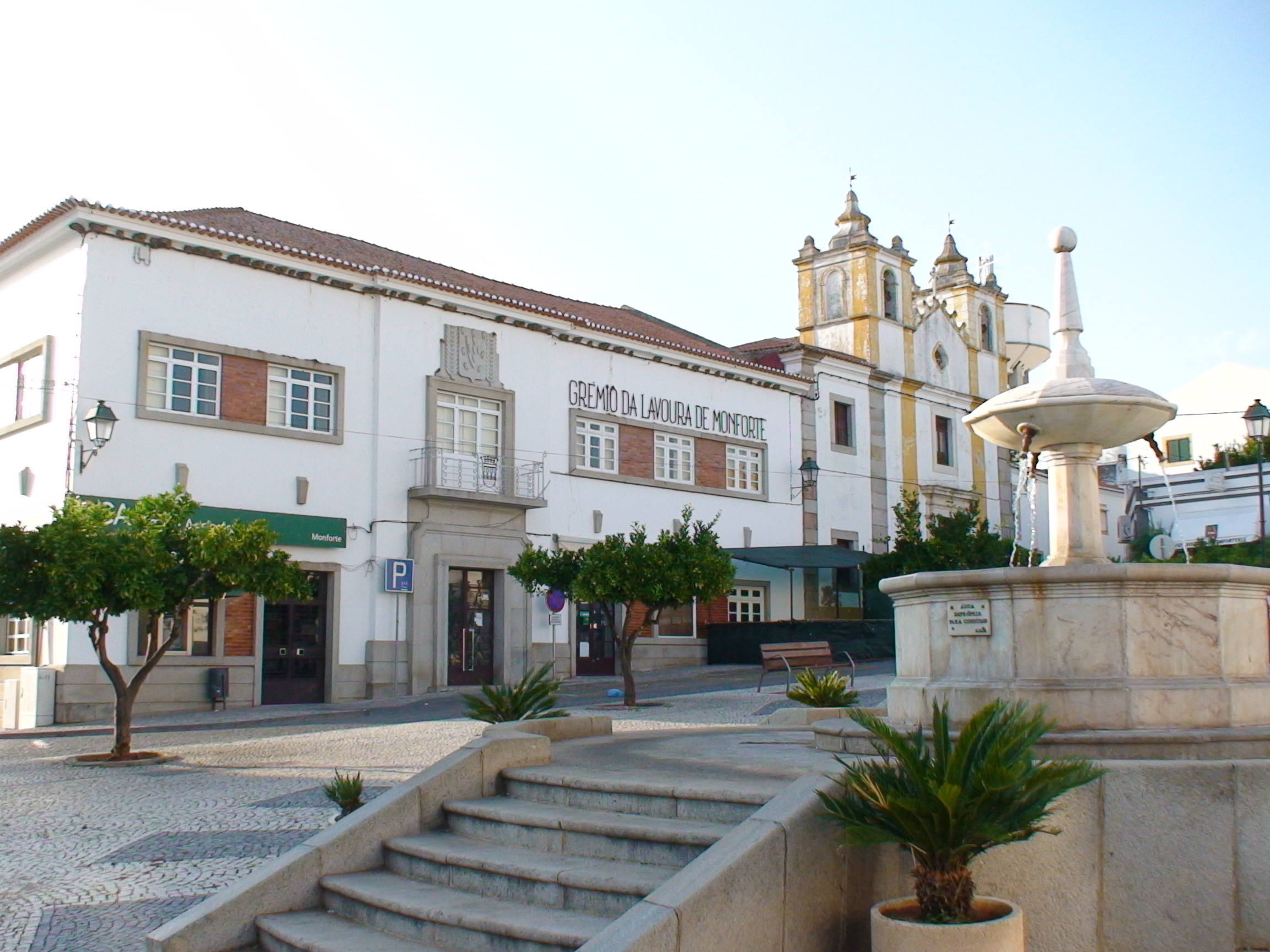 Praça da República ("Republic Square"), Monforte, Alentejo, Portugal.